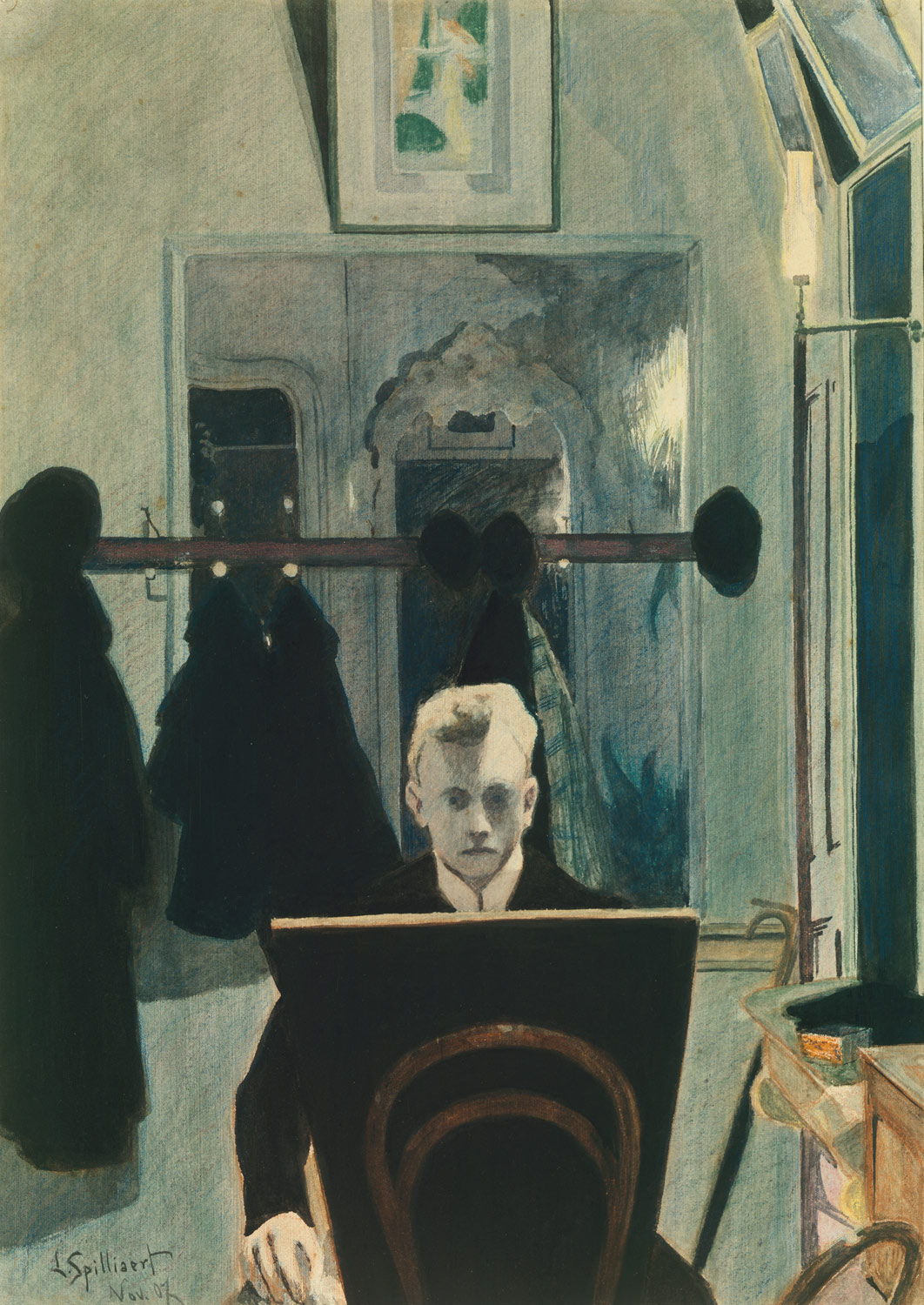 Gouache, watercolor, and colored pencil on paper